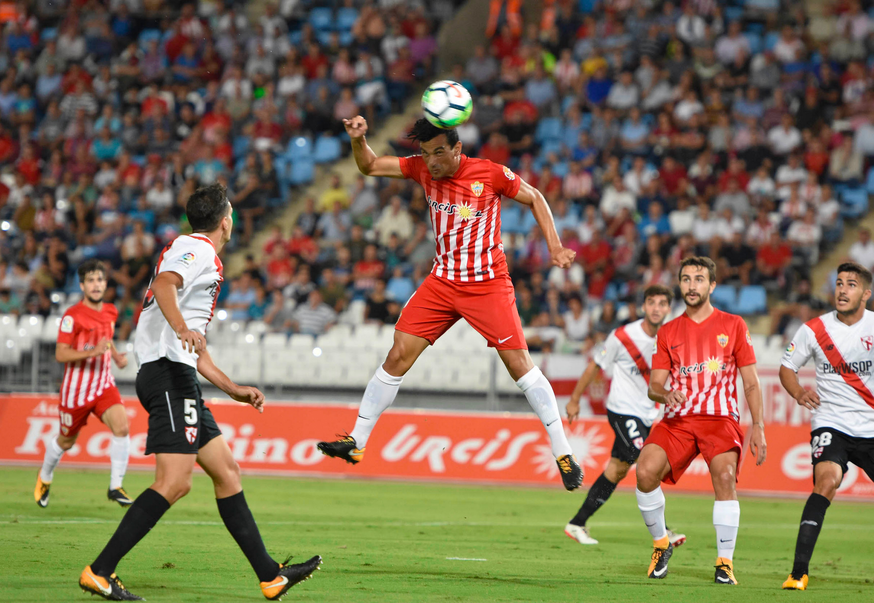 Tino Costa defending the U.D. Almería shirt in a match at the Estadio de los Juegos Mediterráneos, Almería, Spain.